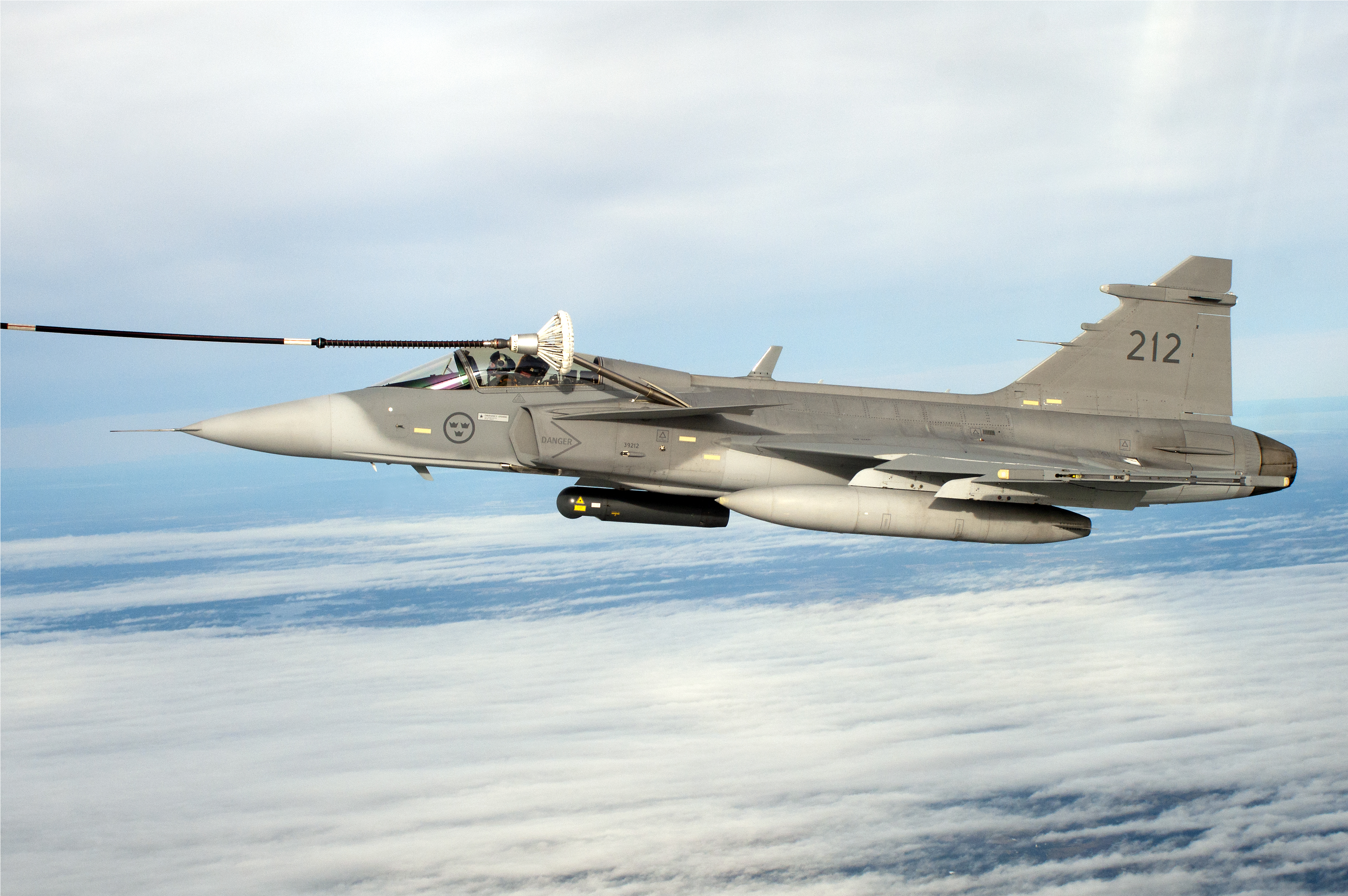 Saab JAS-39 of the Swedish Air Force undergoing inflight refuelling from a TP 84 Hercules